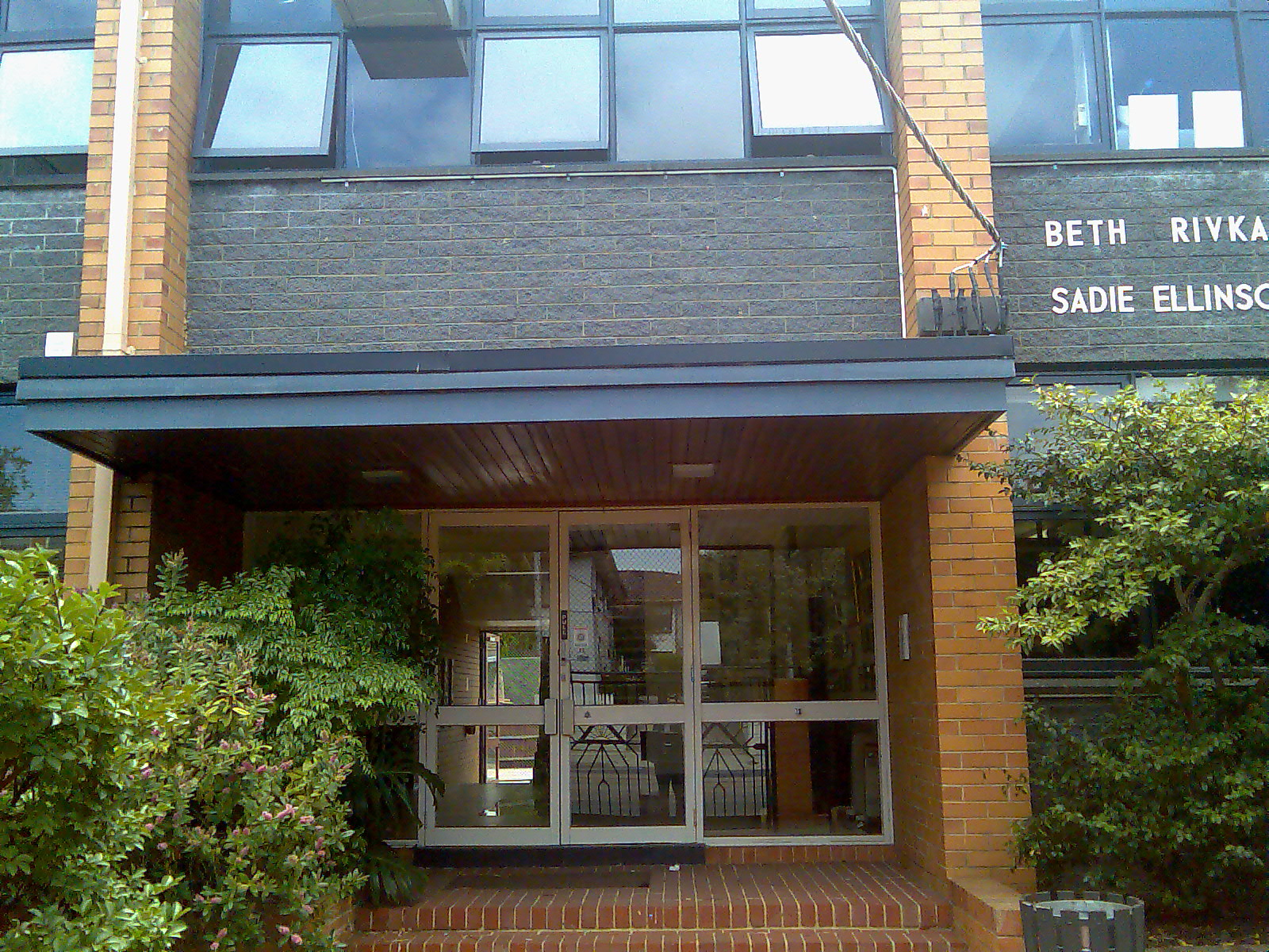 Entrance of Beth Rivkah High School in Melbourne, copied from equivalent image on Wikipedia taken with personal camera.